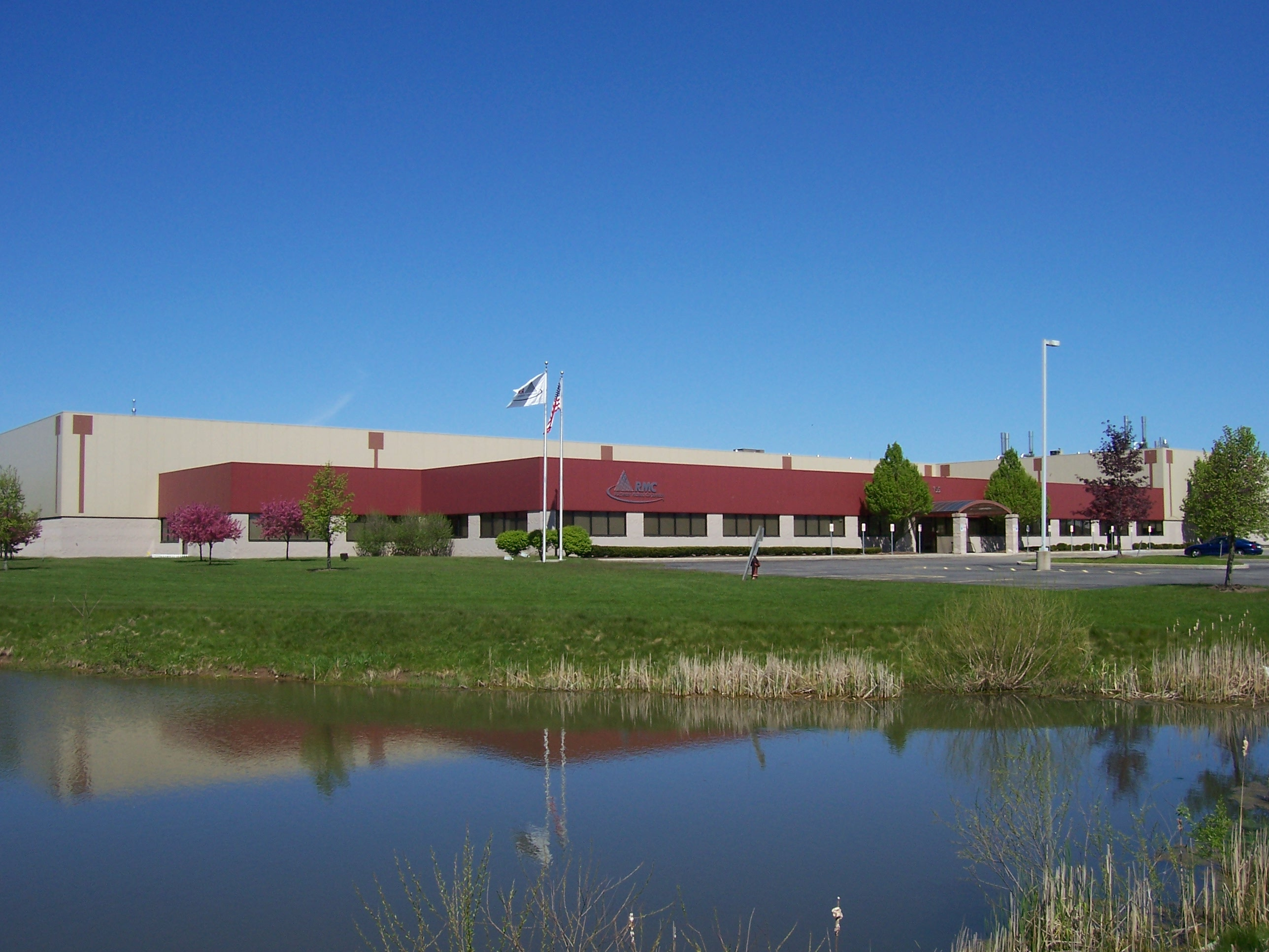 [:en:Rochester Midland Corporation headquarters (post 2011) in Ogden, New York